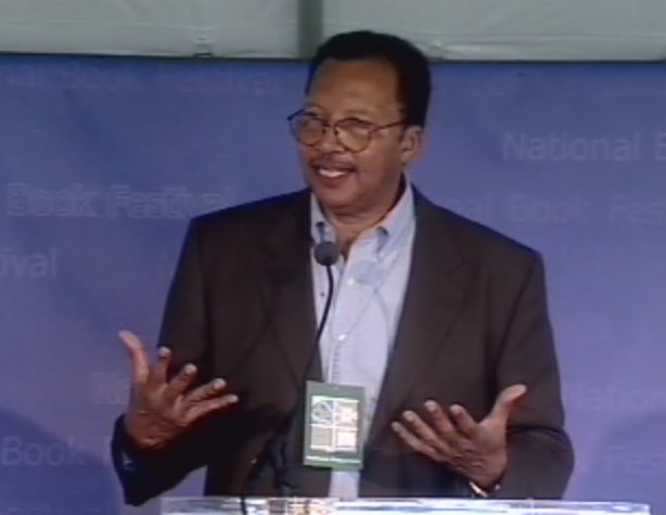 Screen capture of Walter Dean Myers at the 2001 Bookfest at the Library of Congress. (Video uses an older Real Player codec.) Image increased to 2x original size for better sizing here on Wikipedia.